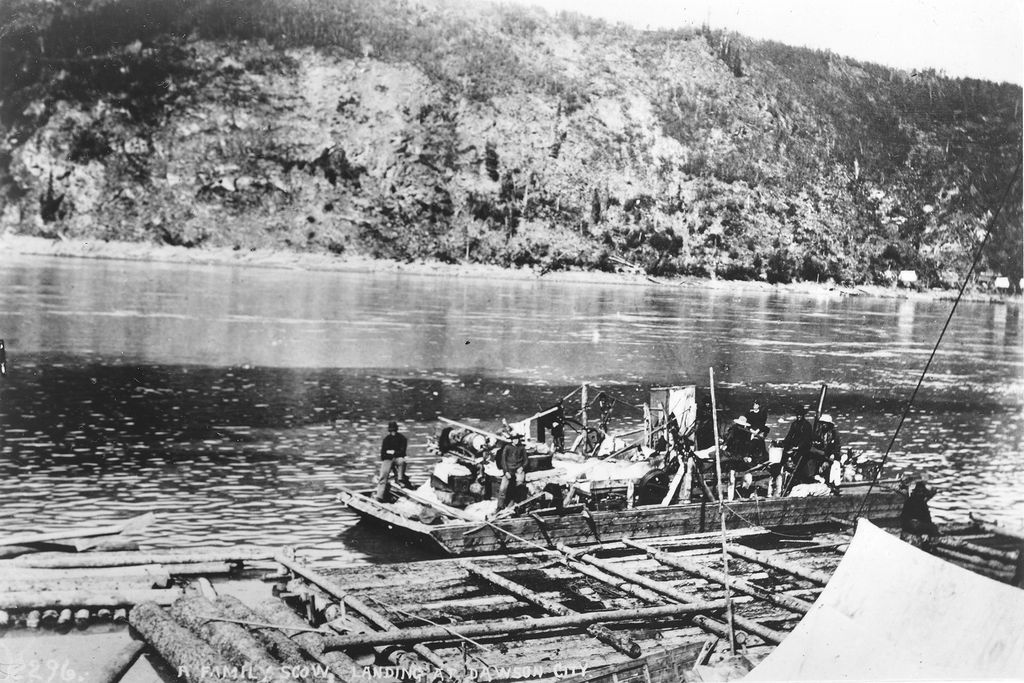 A 'family scow' or barge heavily loaded with supplies on its arrival at Dawson.